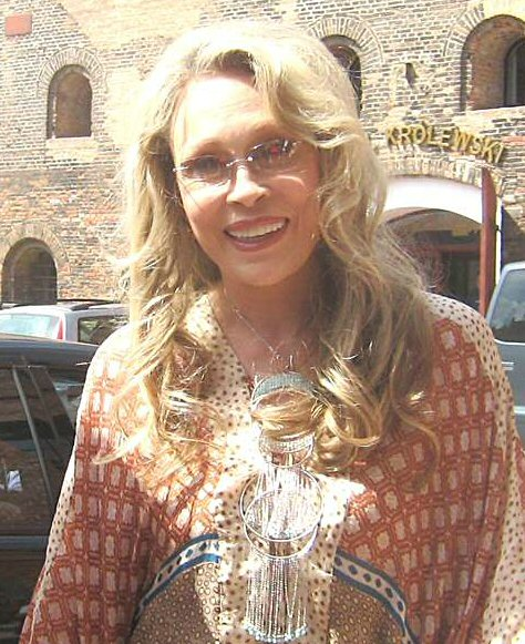 Faye Dunaway depicted person: Faye Dunaway (age: 67.48)